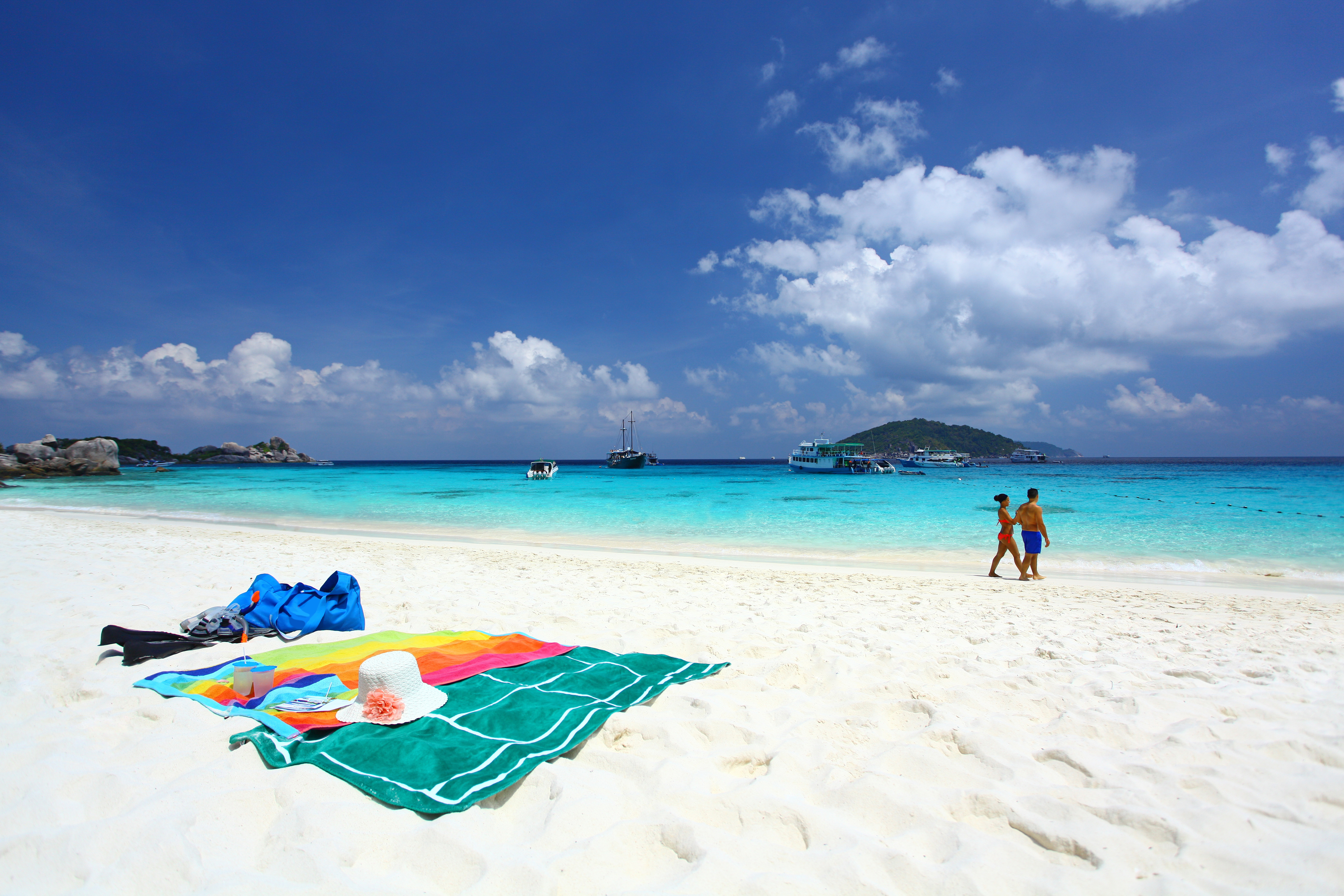 Similan Islands is an underwater paradise teeming with life at large. The coral And among fishes. The water was crystal clear glass and has a beautiful white sand beaches. Similan is famous for its beautiful deep water, 1 in 10 of the world's top sailing and rock as a symbol of the Similan Islands National Park. Leasing is located at the island, 8 (Similan Islands) that is very beautiful. And is a highlight of the Similan Islands.